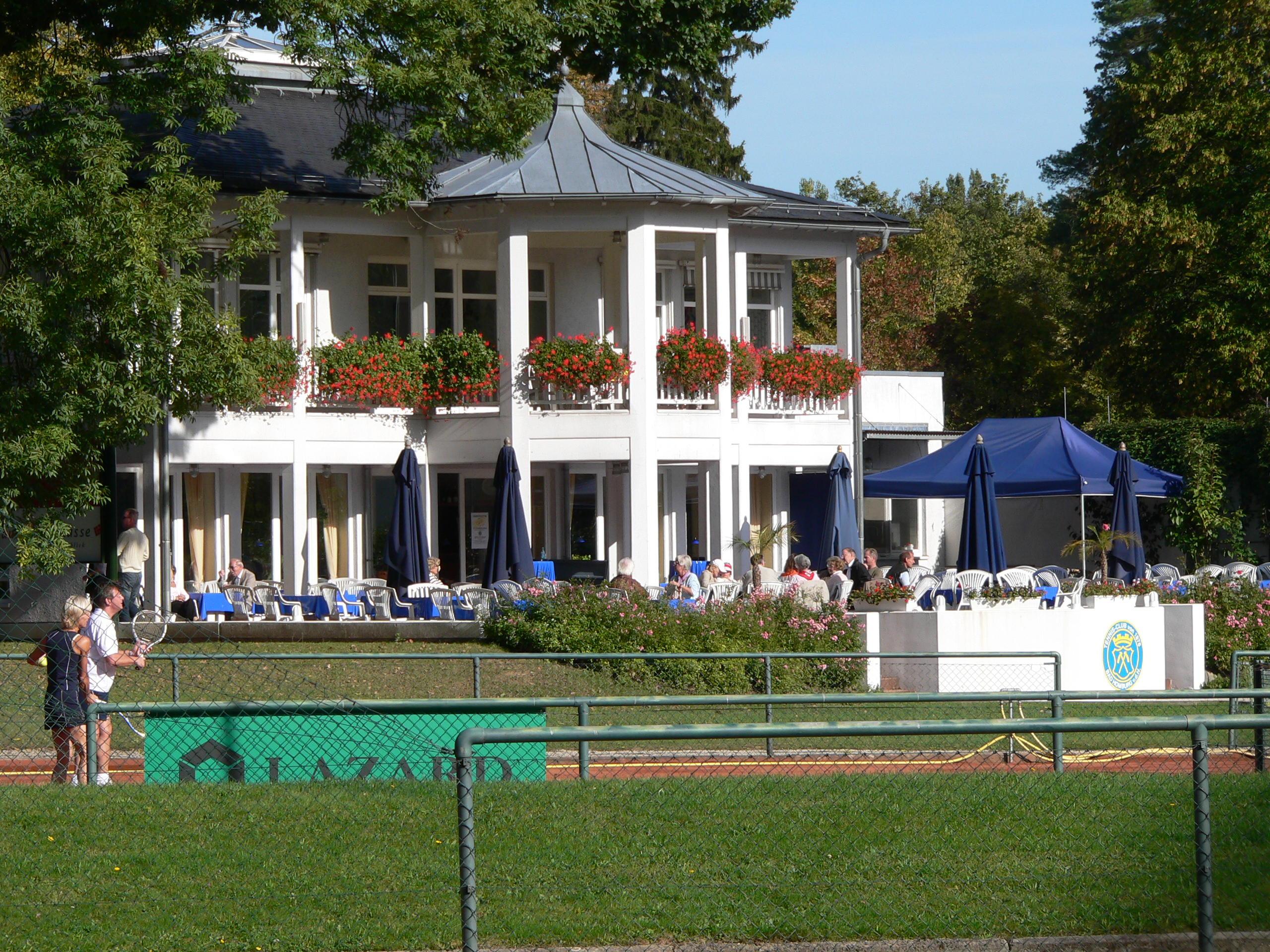 Bad Homburg Tennis Club in the Kurpark. Rjh1962 12:08, 10 October 2006 (UTC). October 2006